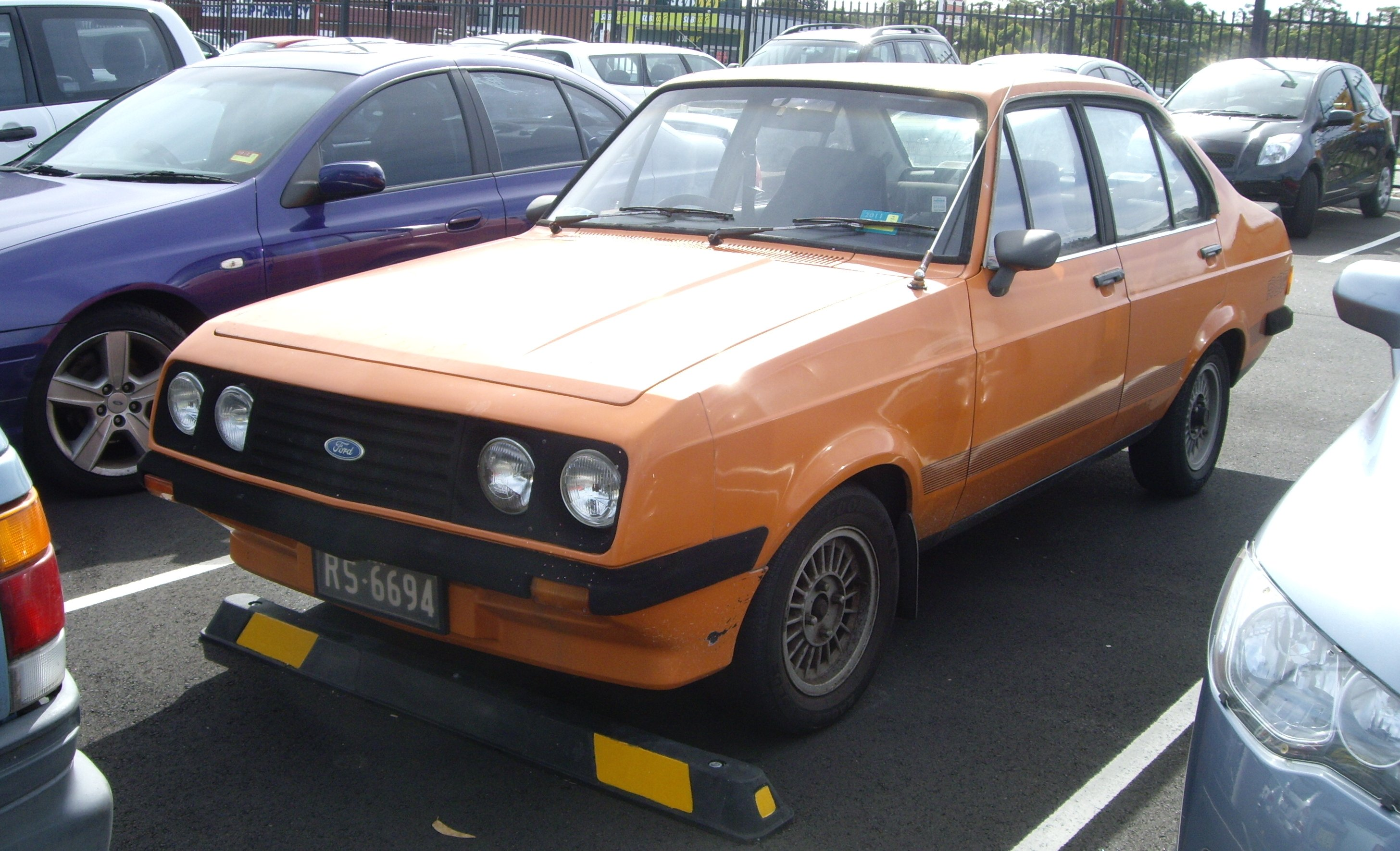 This is still very much a daily driver and station car as I see it being driven around a lot, it looks tidy but up close you can see it's no garage queen. Not sure if the owner is unaware of the value of the car now or just likes it too much to give up (wouldn't blame him!)